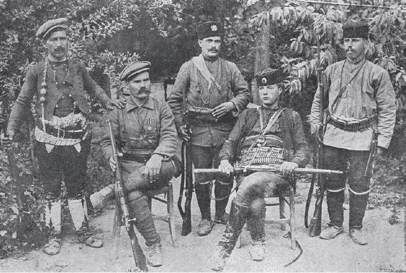 Cheta of IMARO voivoda Lazar Velkov